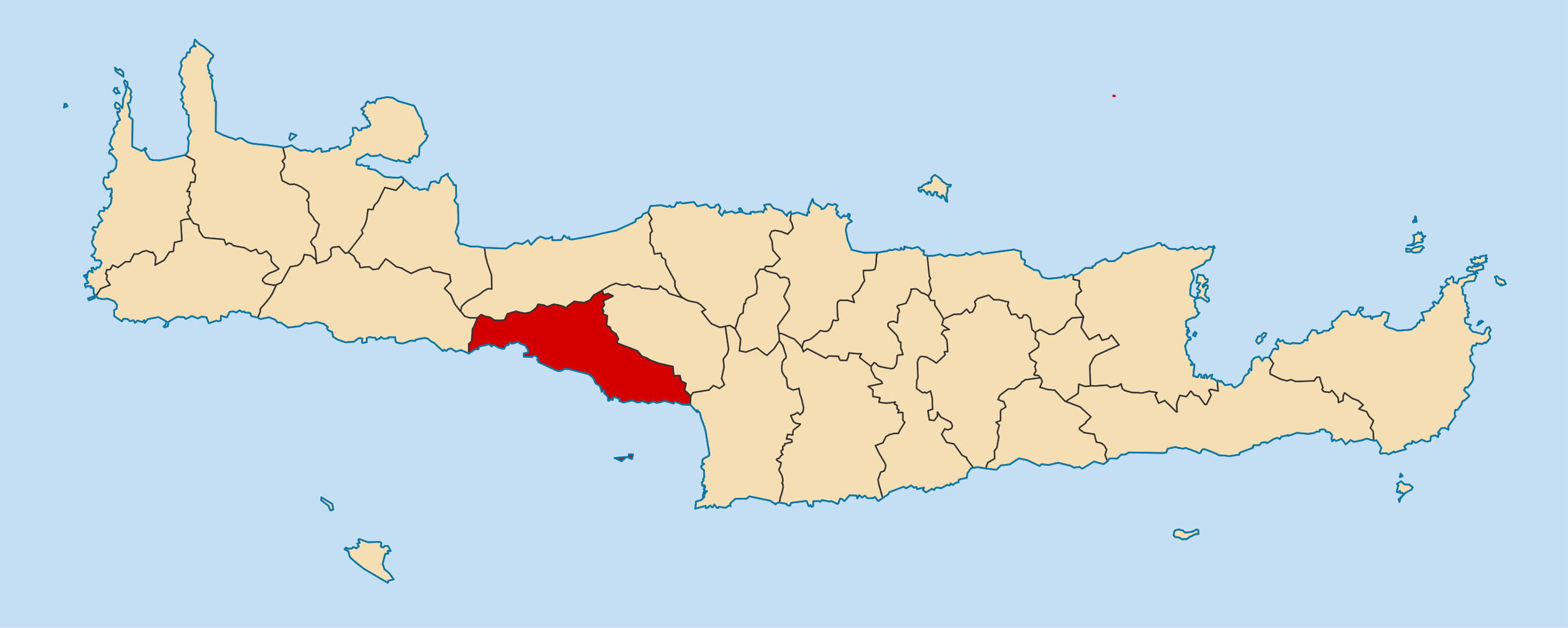 Locator map for Agios Vasilios municipality in Greek region Crete (2011)